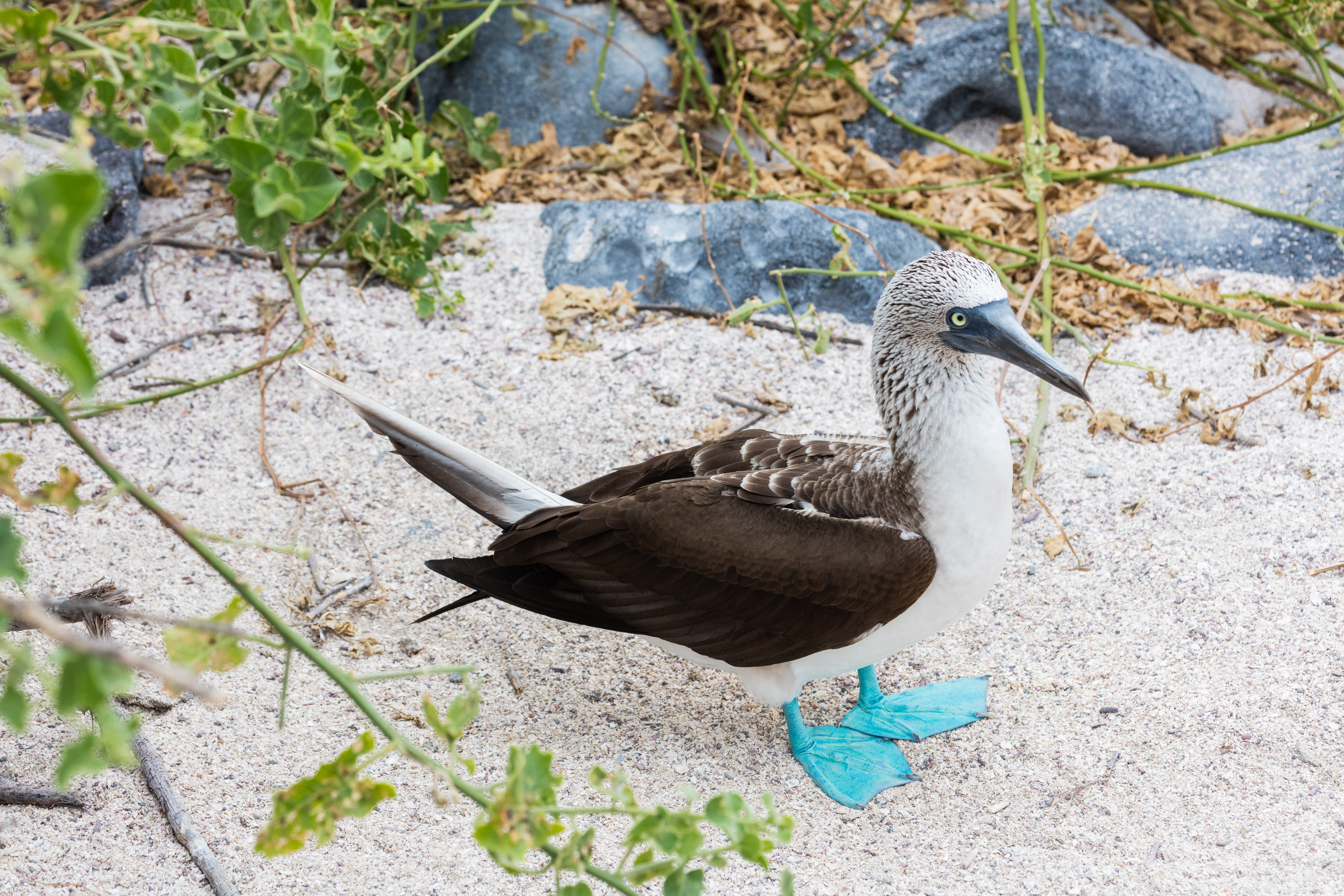 Blue-footed booby (Sula nebouxii), Lobos Island, Galapagos Islands, Ecuador